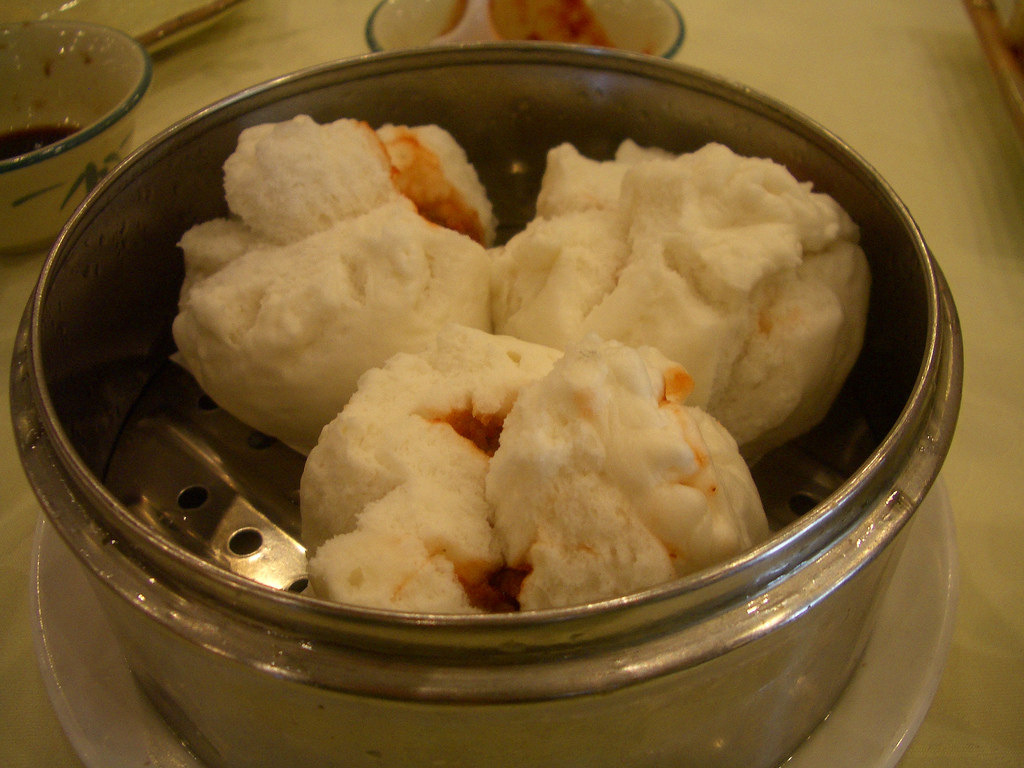 叉燒包, a kind of steamed bun and dim sum.